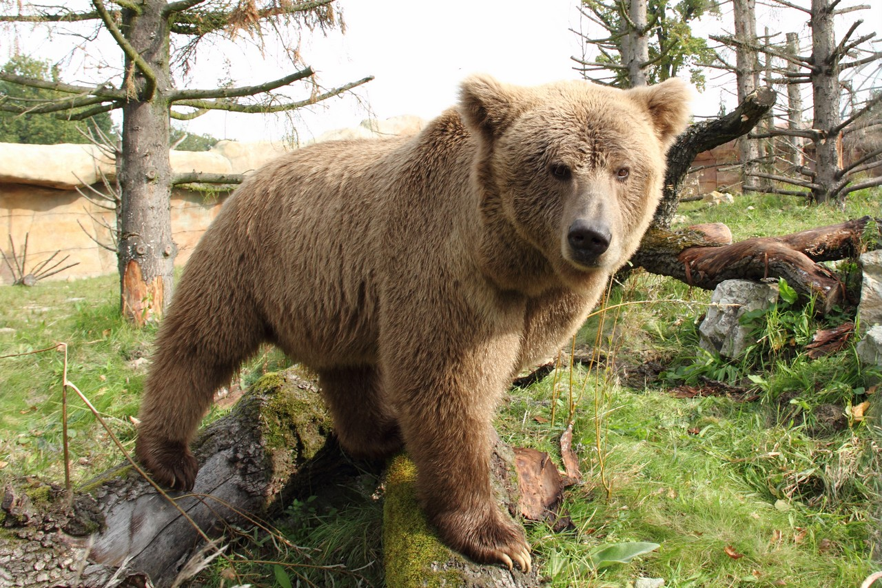 Himalayan brown bear in Zoo Hluboka